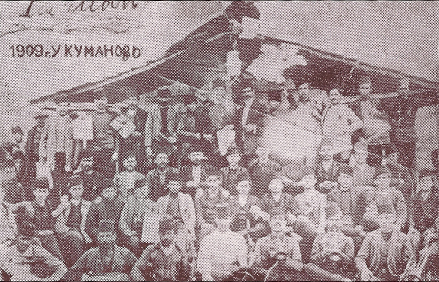 Celebrating 1st of May 1909 in Kumanovo